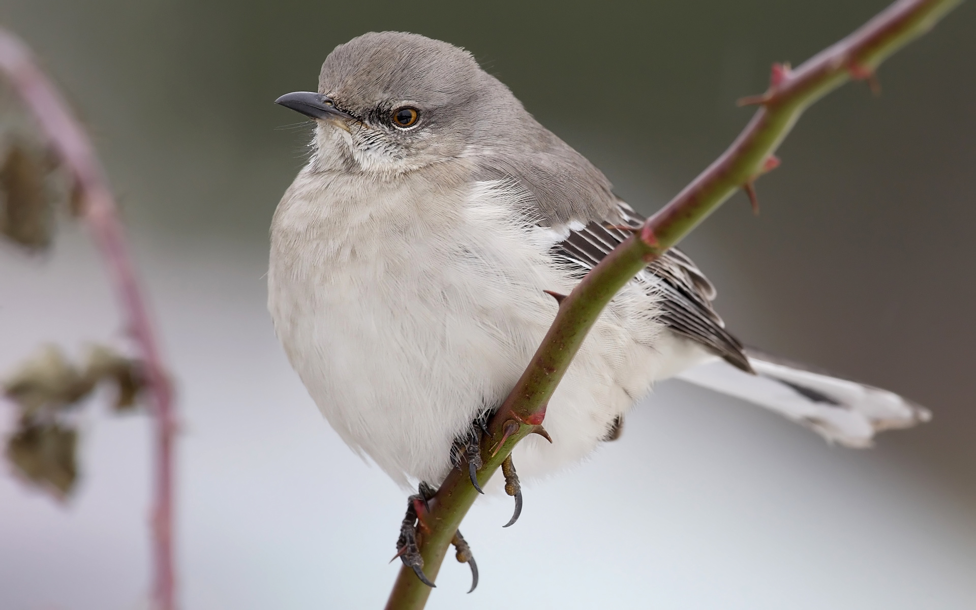 Northern Mockingbird, Humber Bay Park (West), Toronto, Canada